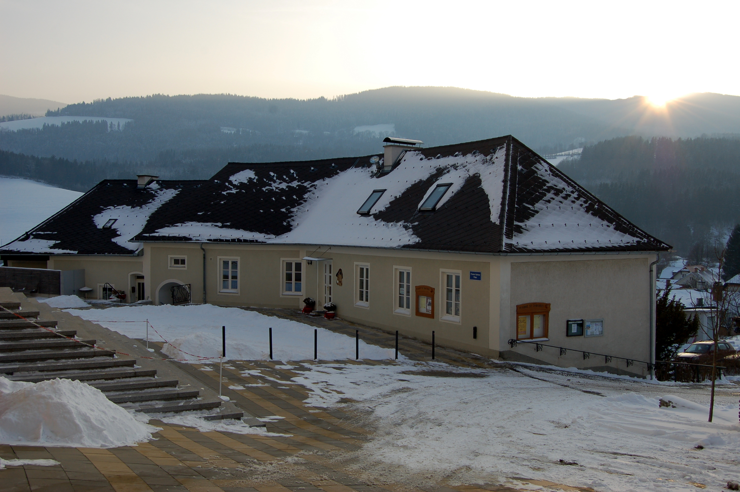 Formerly parts of the nuns' monastery, these buildings are now in use for purposes of the parish of Kirchberg am Wechsel, Lower Austria (view from Florian-Kuntner-Platz).